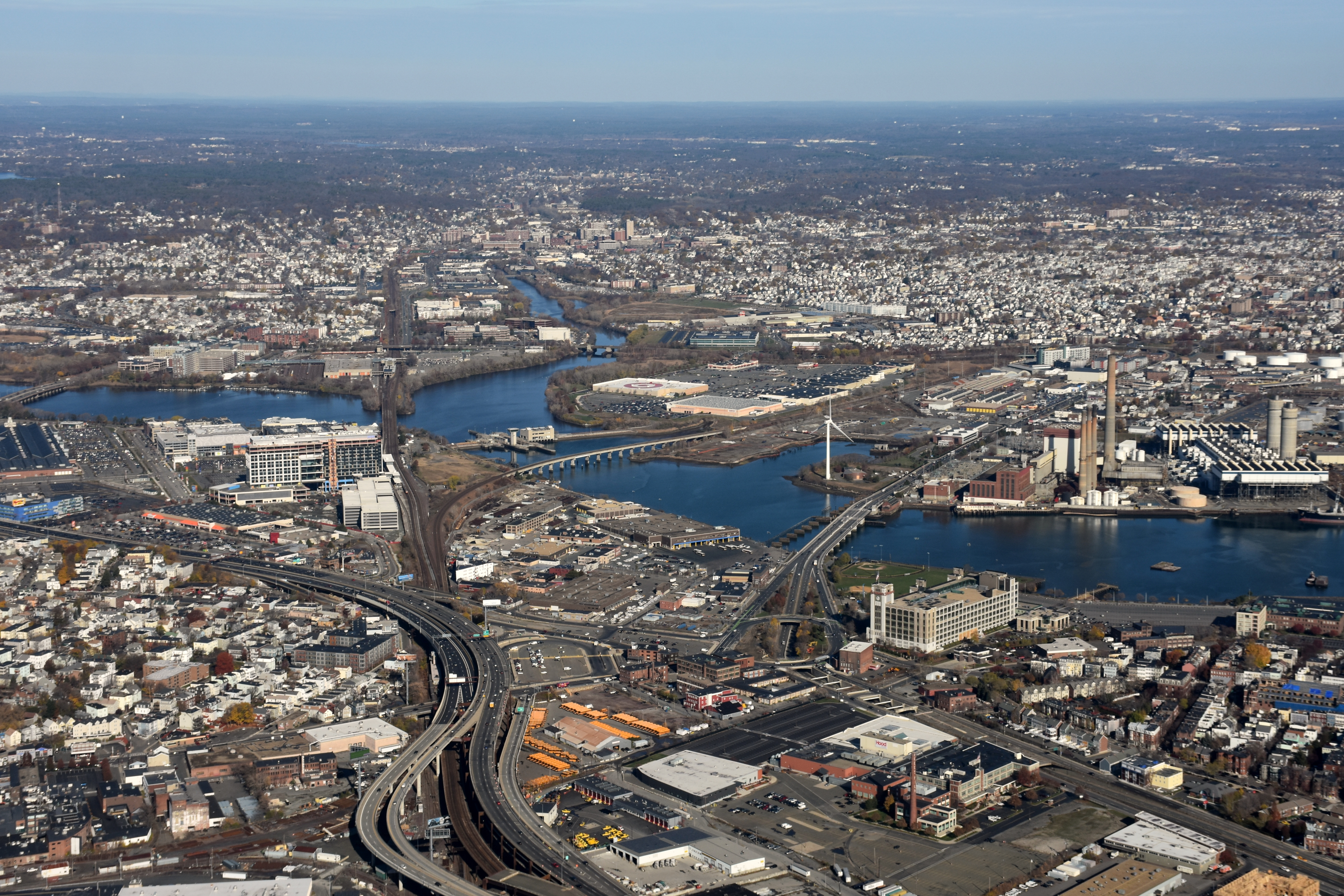 Aerial view of Interstate 93 (I-93) and Inner Belt rail corridor in East Somerville and Charlestown neighborhood of Boston. The Mystic River appears in the middle ground.